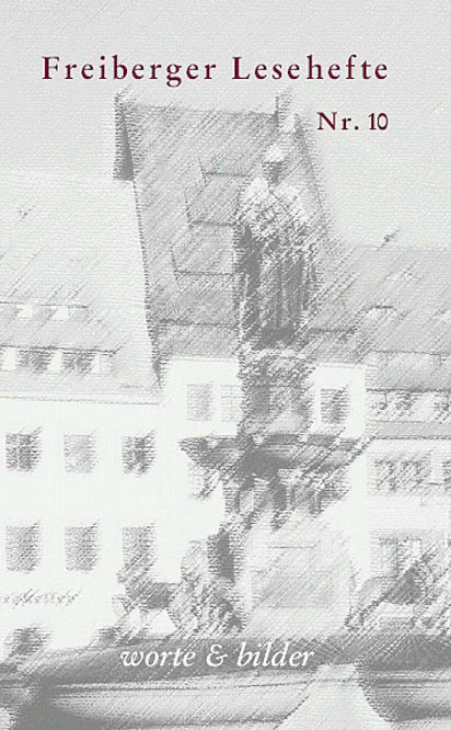 Coverpicture of "Freiberger Lesehefte" Nr. 10